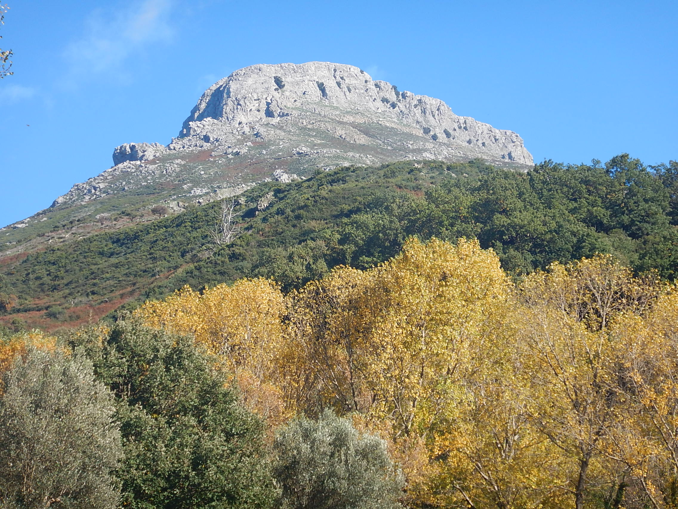 the mount Scuderi, Peloritani mounts, Sicily